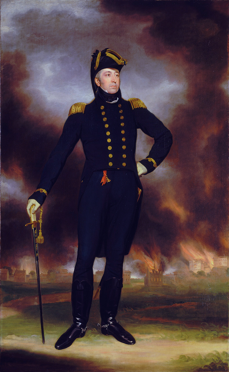 Rear-Admiral George Cockburn (1772-1853) oil on canvas 239 x 148.5 cm ca. 1817